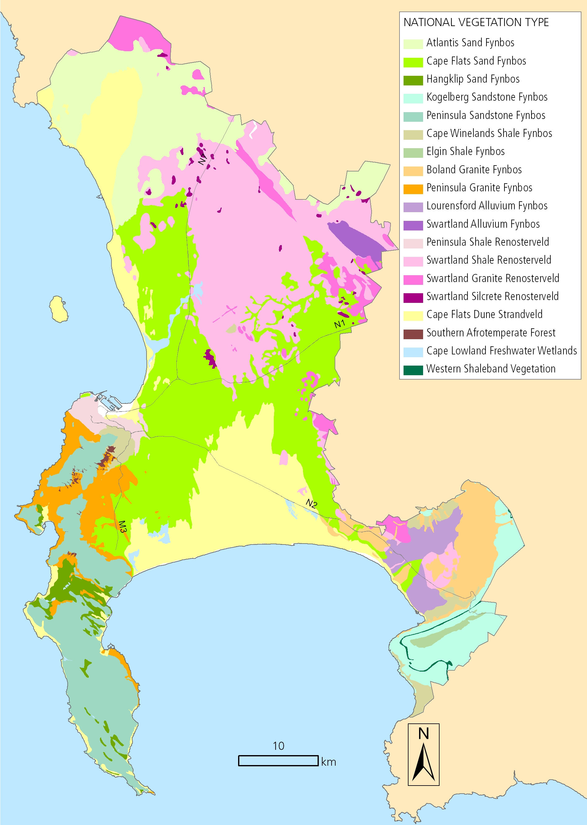 Map of the city of Cape Town showing its many different natural vegetation types. First of two images showing CTs natural vegetation types before and after the growth of the city. Generated, drawn and coloured using common public domain data. Checked to be in accordance with free public information published by the city of Cape Town's Environmental Resource Management Department.